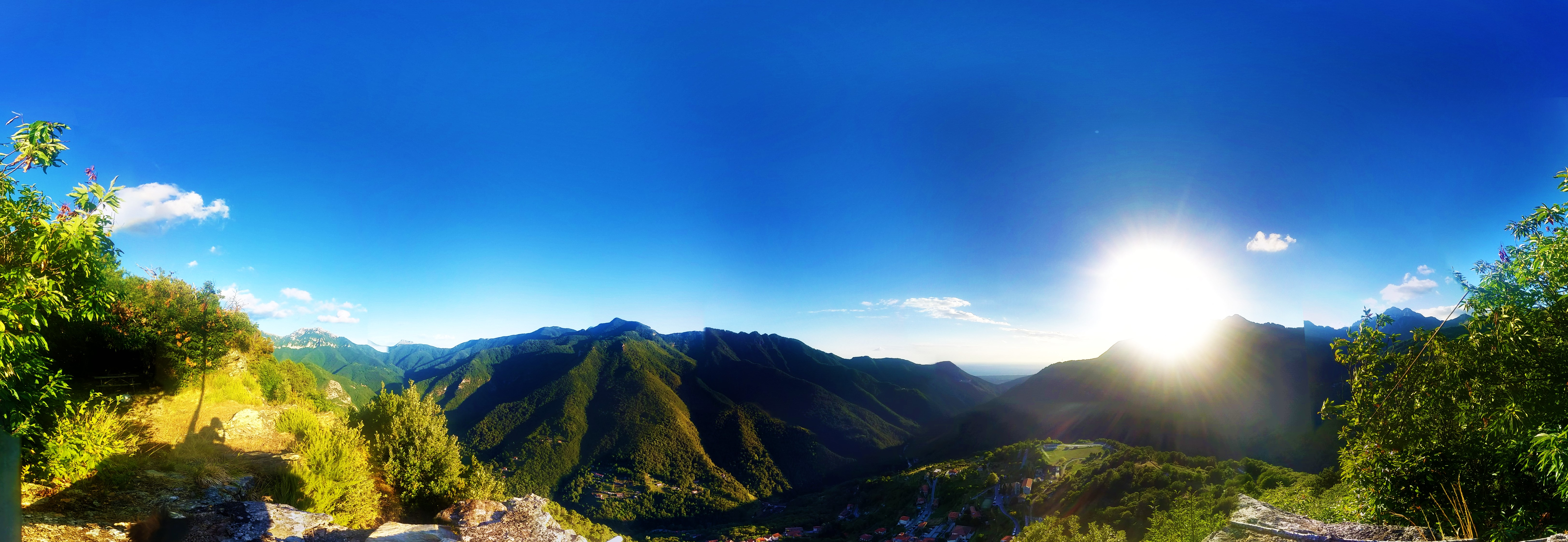 Amazing view of the Apuan Alps and the coastline of Versilia seen from the village of Retignano, Tuscany. 2015